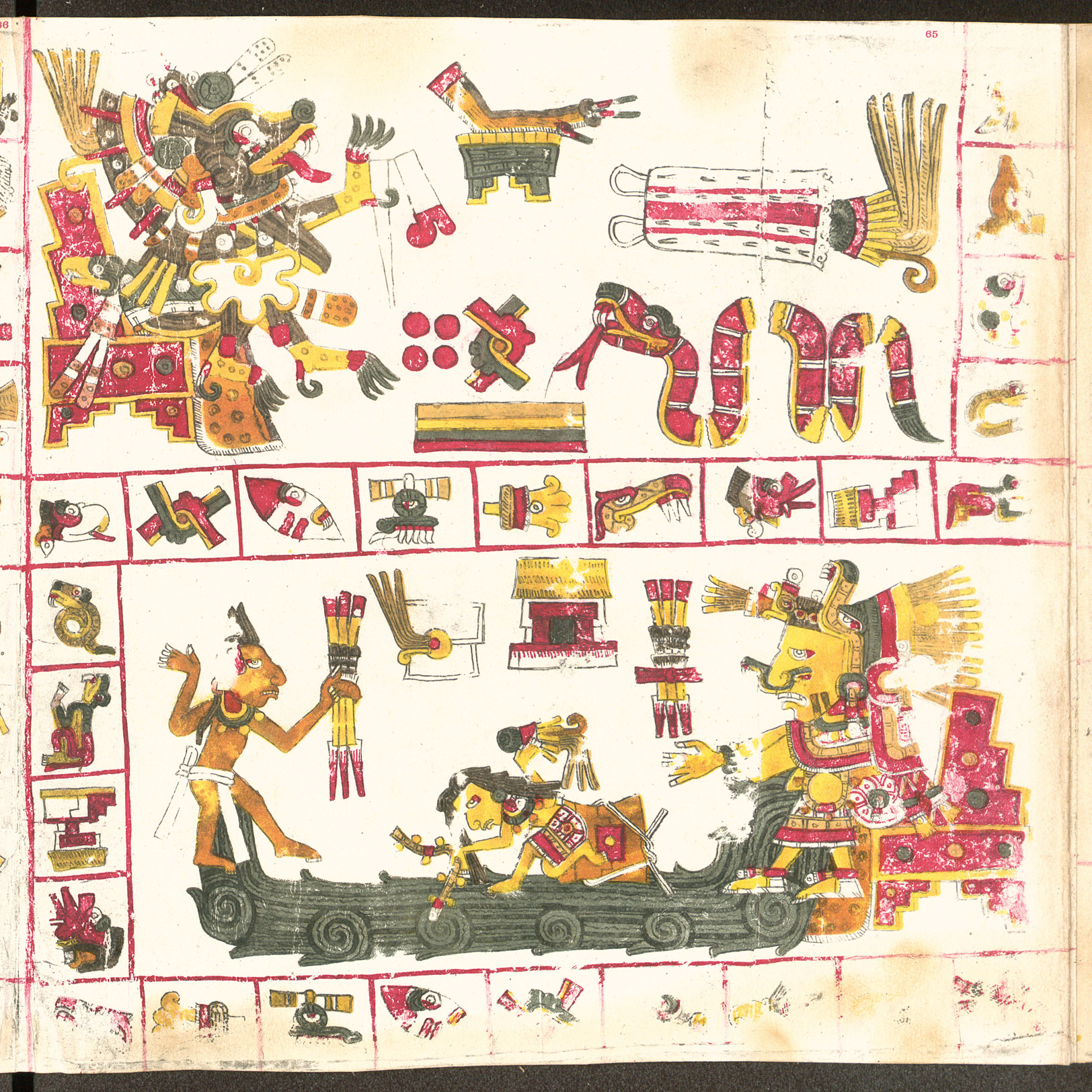 Page 65 of the Codex Borgia.